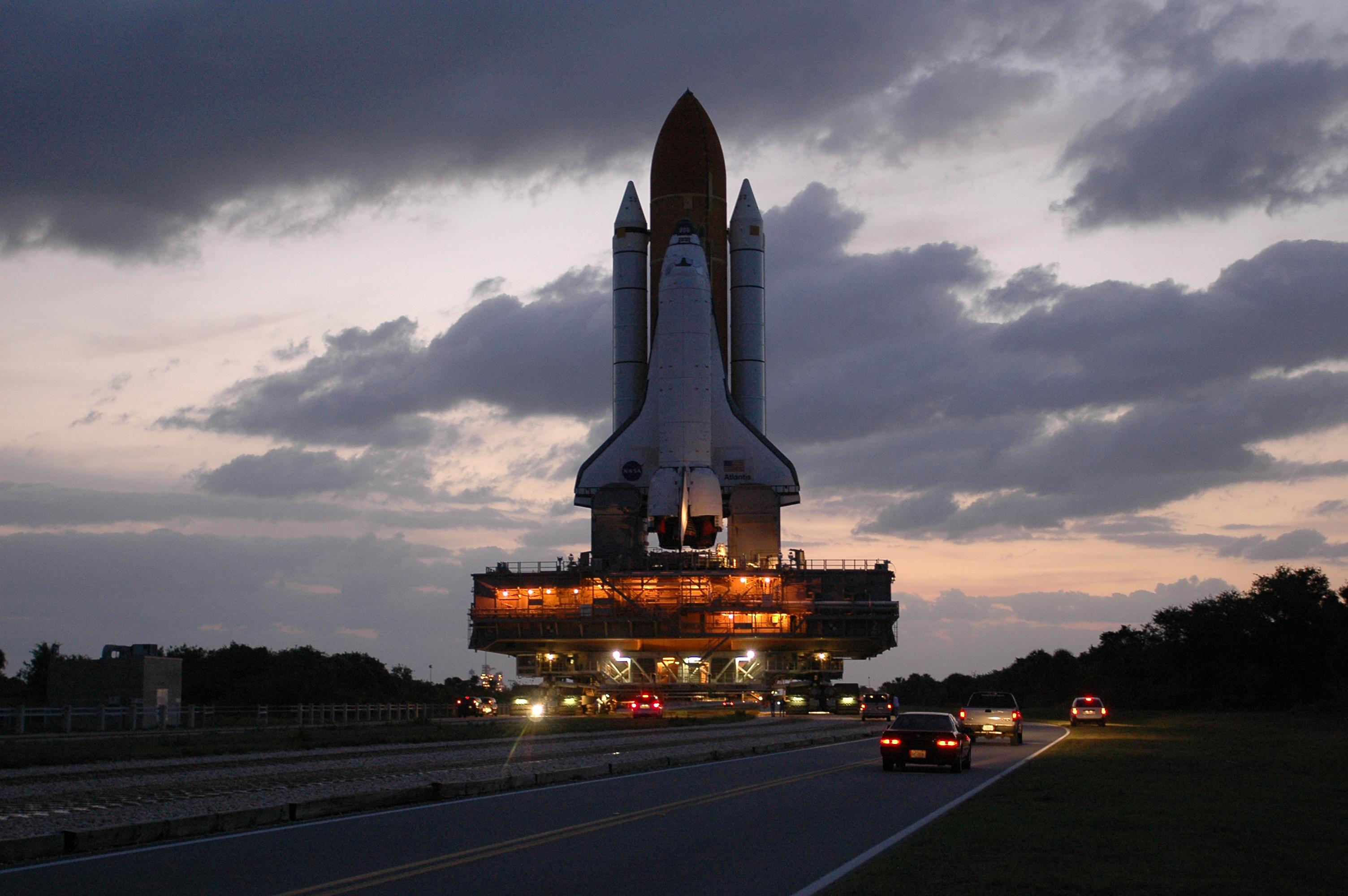 Space Shuttle Atlantis, mounted on a mobile launch platform, rolls to Launch Pad 39A atop a crawler transporter at dawn